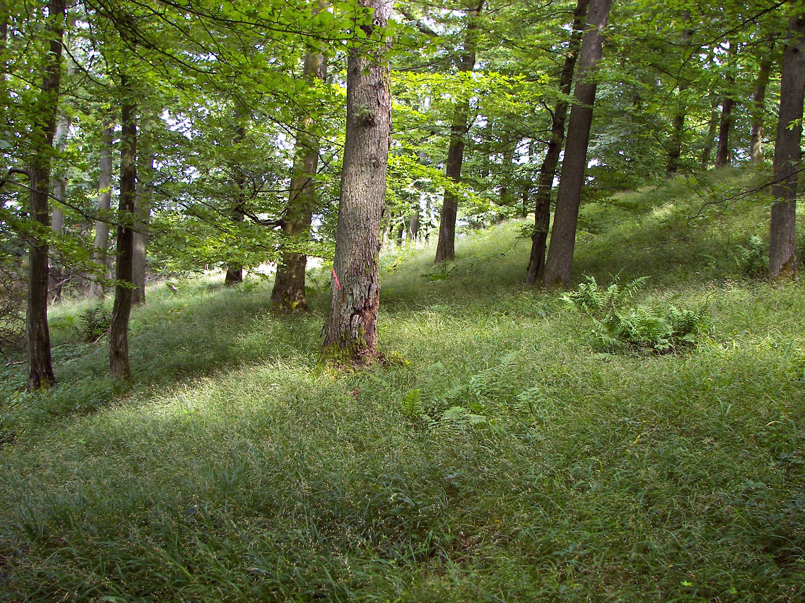 Cicular wall on Rimberg, Location: Marburg-Biedenkopf district, Hesse, Germany